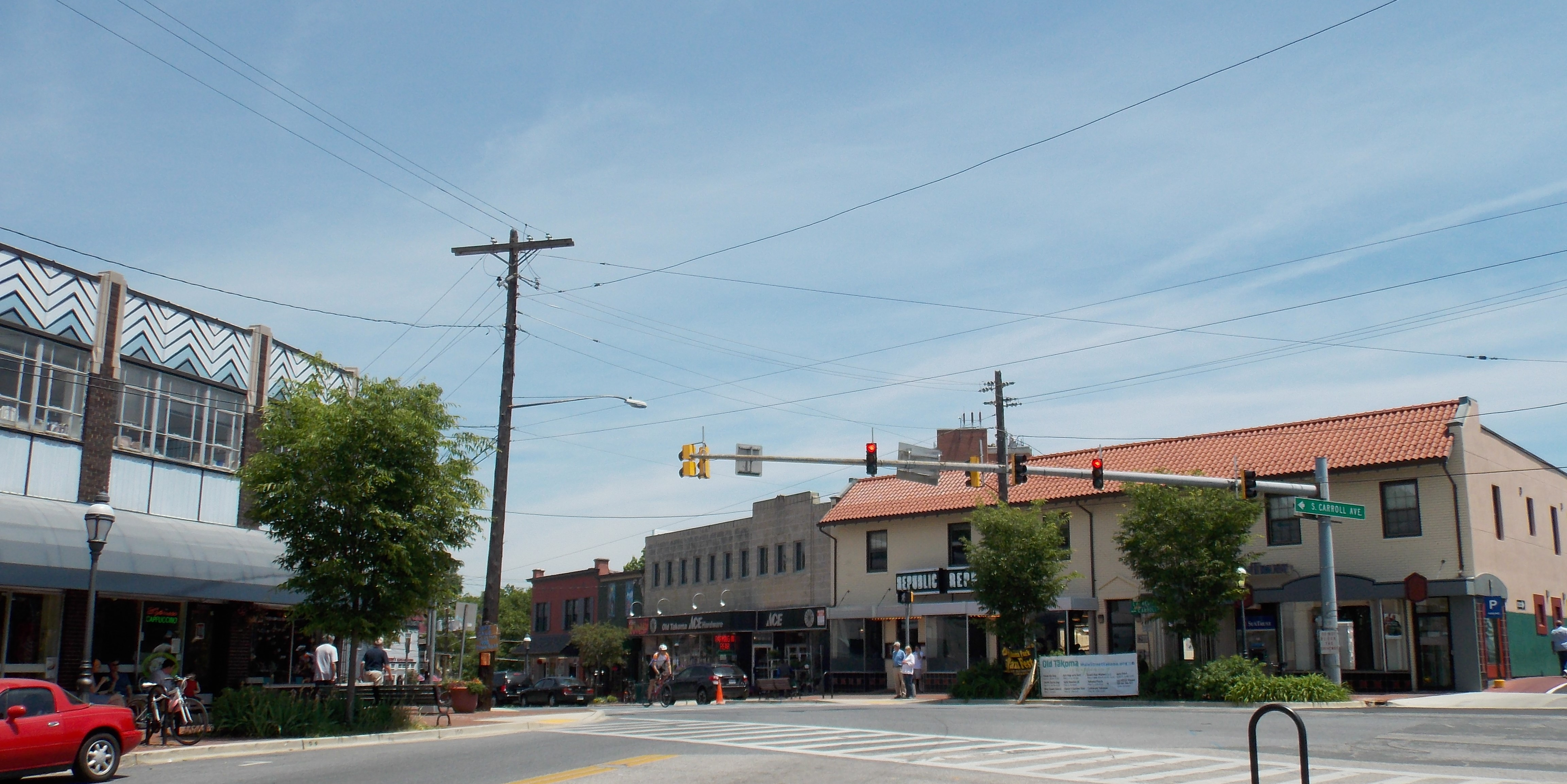 The downtown Takoma Park, Maryland